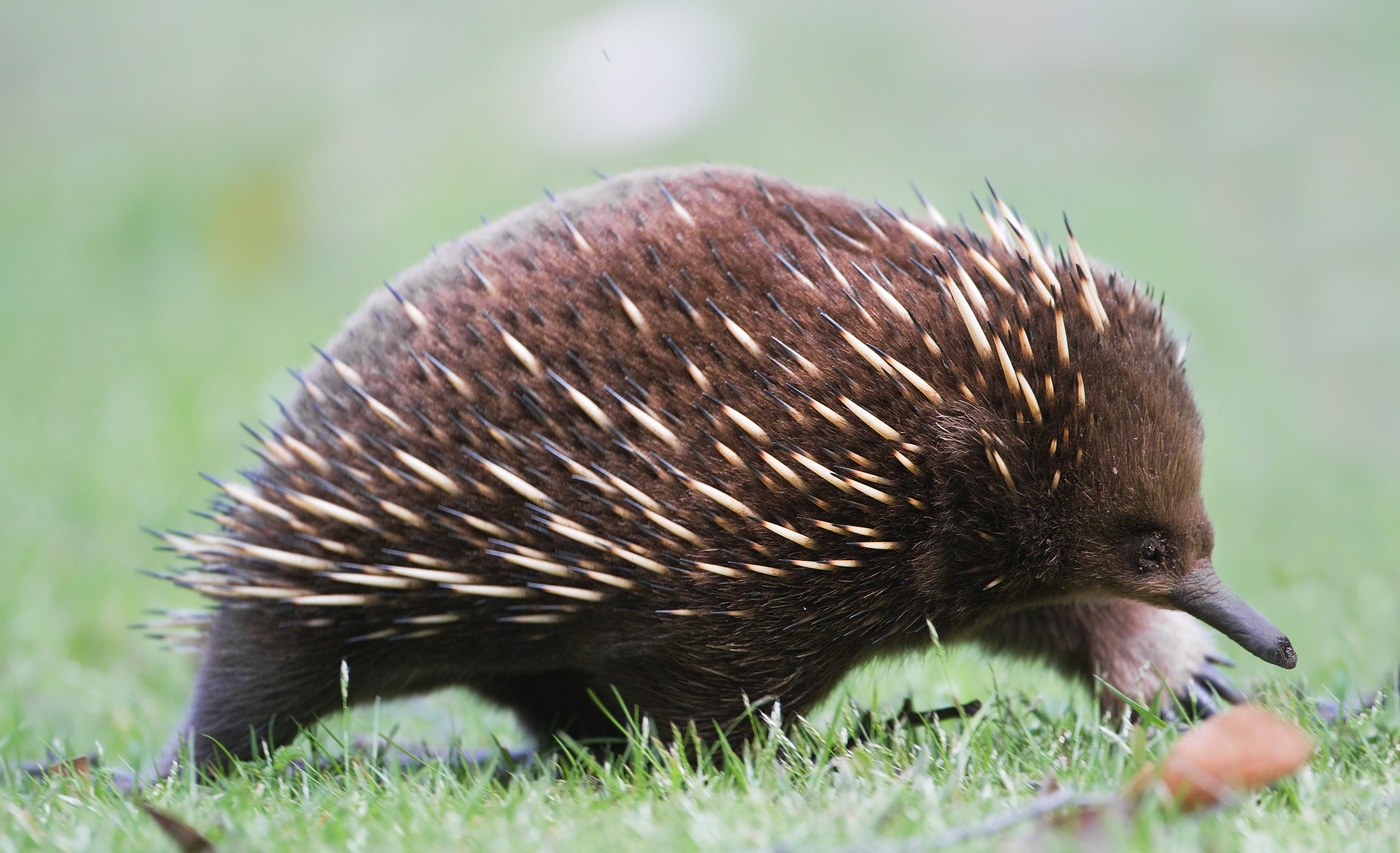 Short-beaked Echidna (Tachyglossus aculeatus), Mount Field National Park, Tasmania, Australia